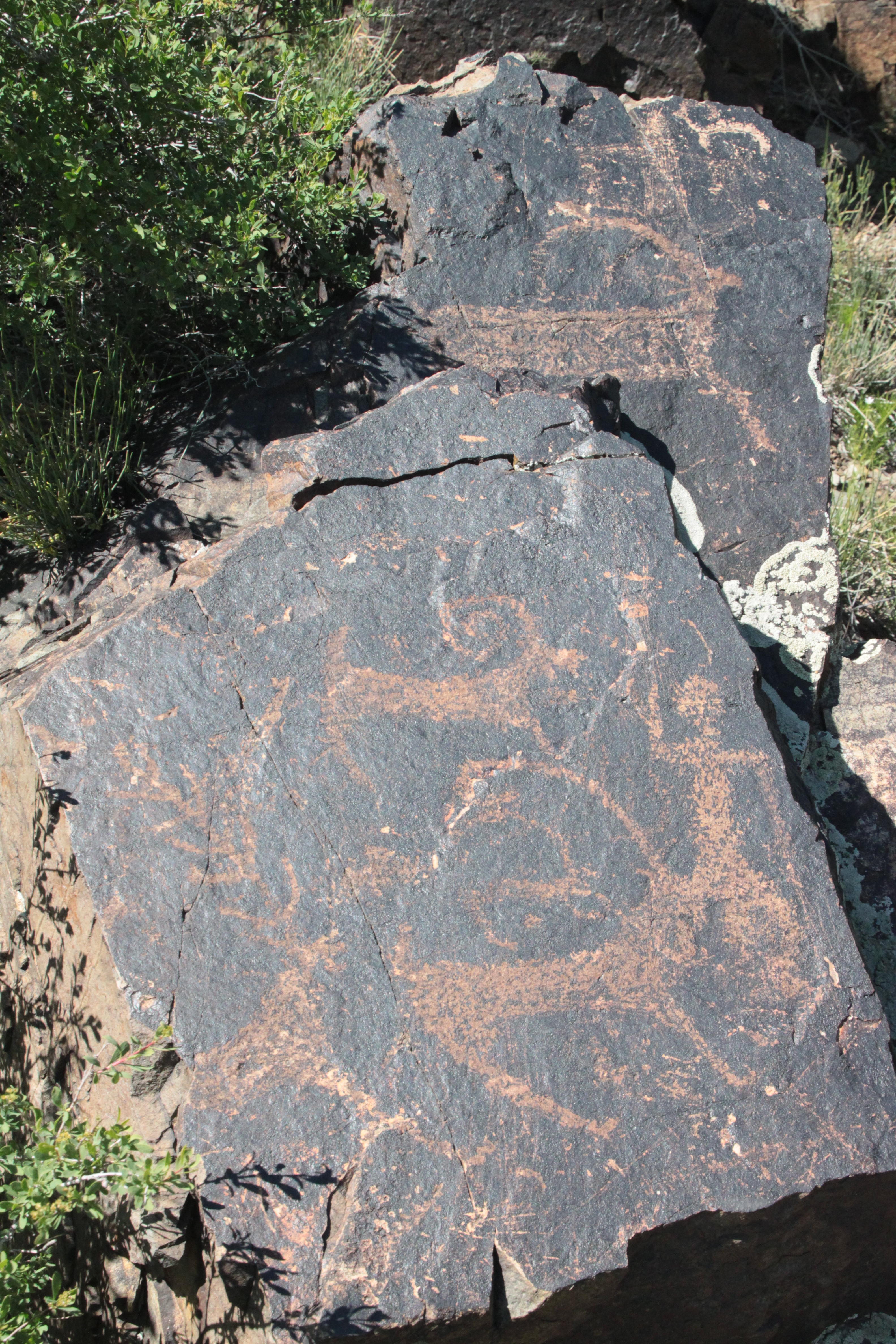 Petroglyphs nearby the river Koksu, Almaty Province, Kazakhstan